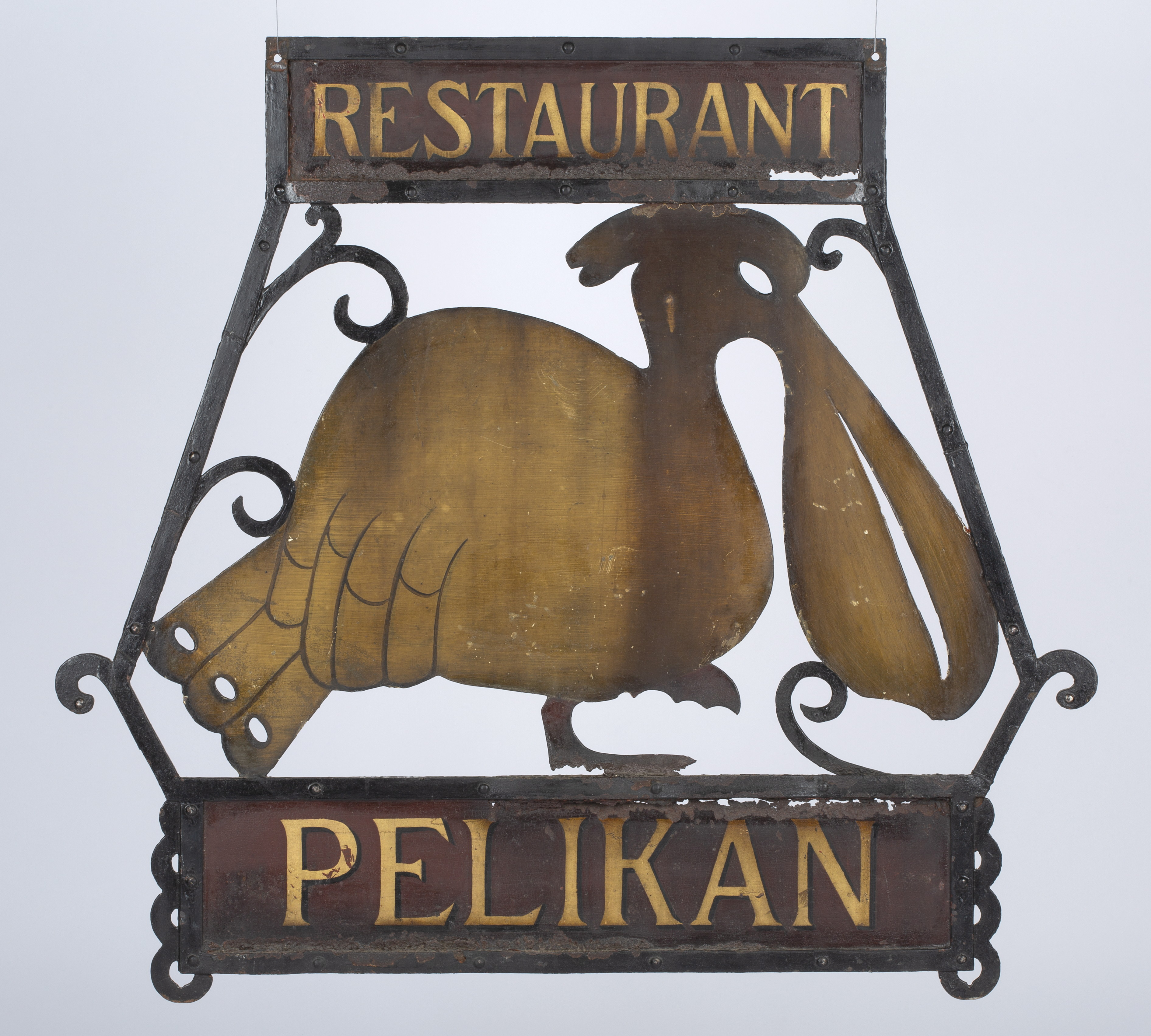 FÖREMÅLSkylt.SSM_6304_0Stadsmuseet i Stockholm: Original restaurangskylt till restaurangen Pelikan